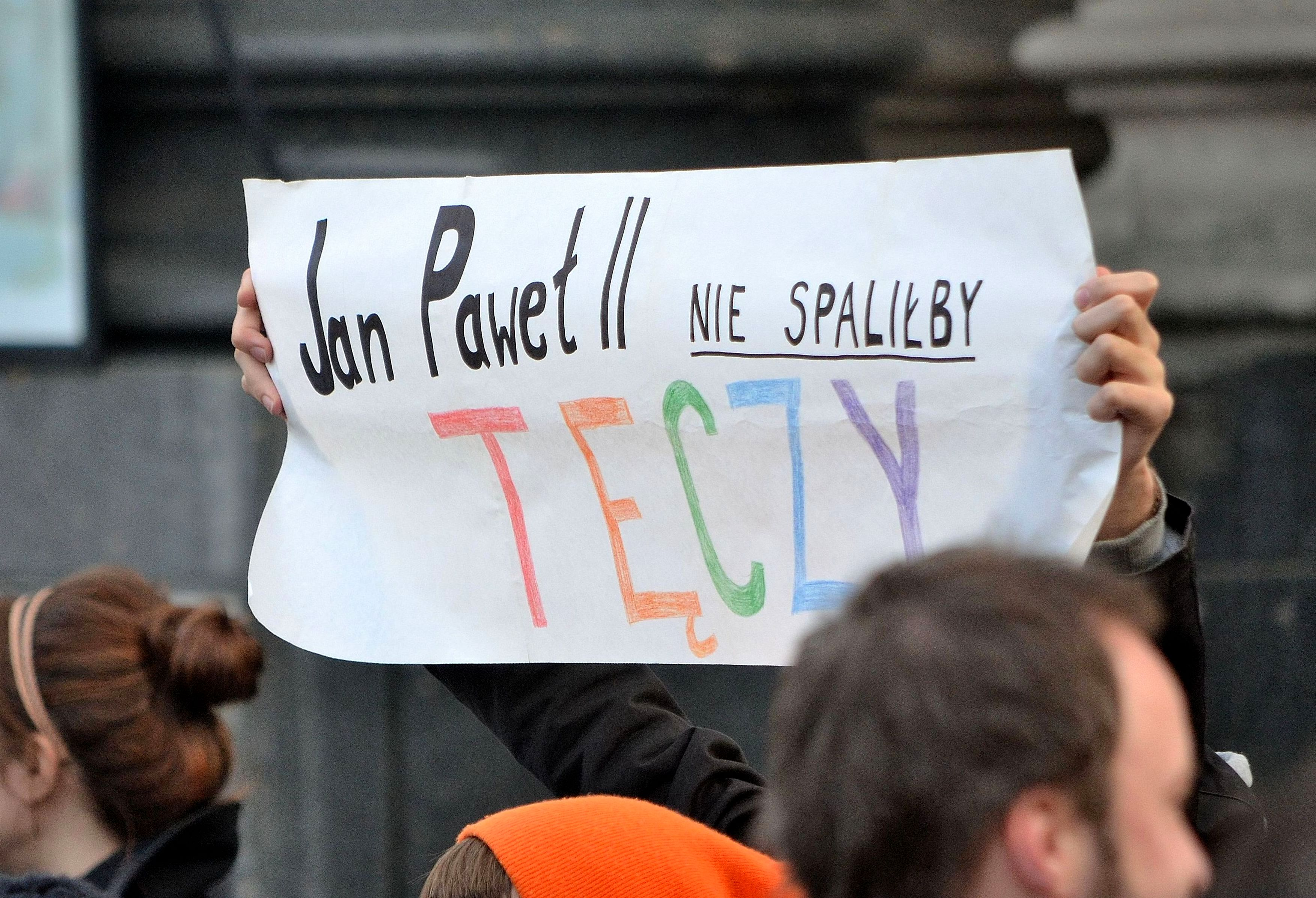 A sign carried during a gathering "I defend the rainbow like I defend independence" in Saviour Square in Warsaw. It reads: John Paul II would not have burnt the Rainbow